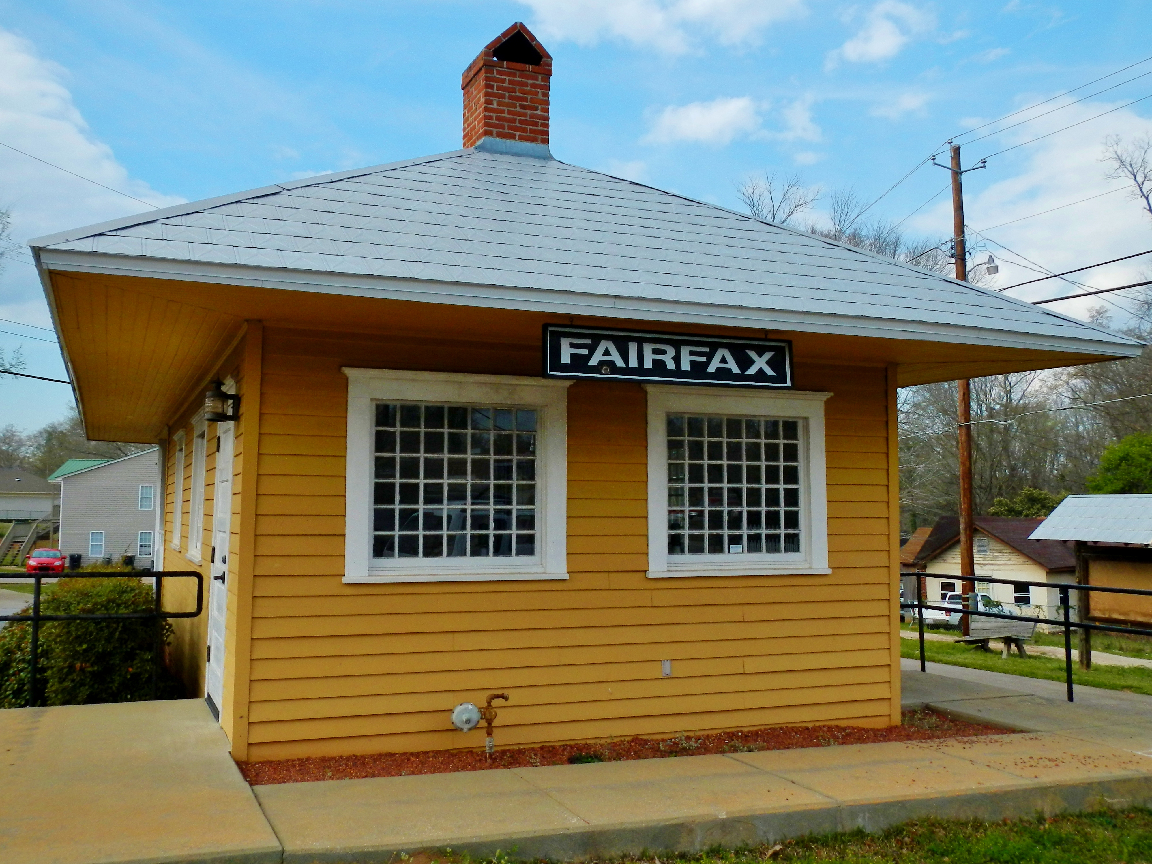 This is a photo of the Fairfax Historic District in Valley, Alabama.